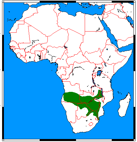 Range map for Selous' Mongoose (Paracynictis selousi), made by me with help of Map depending on the range map at IUCN red list.